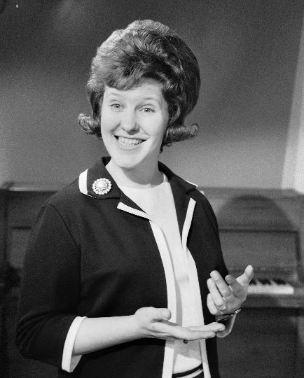 Photograph of the Finnish vocalist Ragni Malmstén (1933–2002).